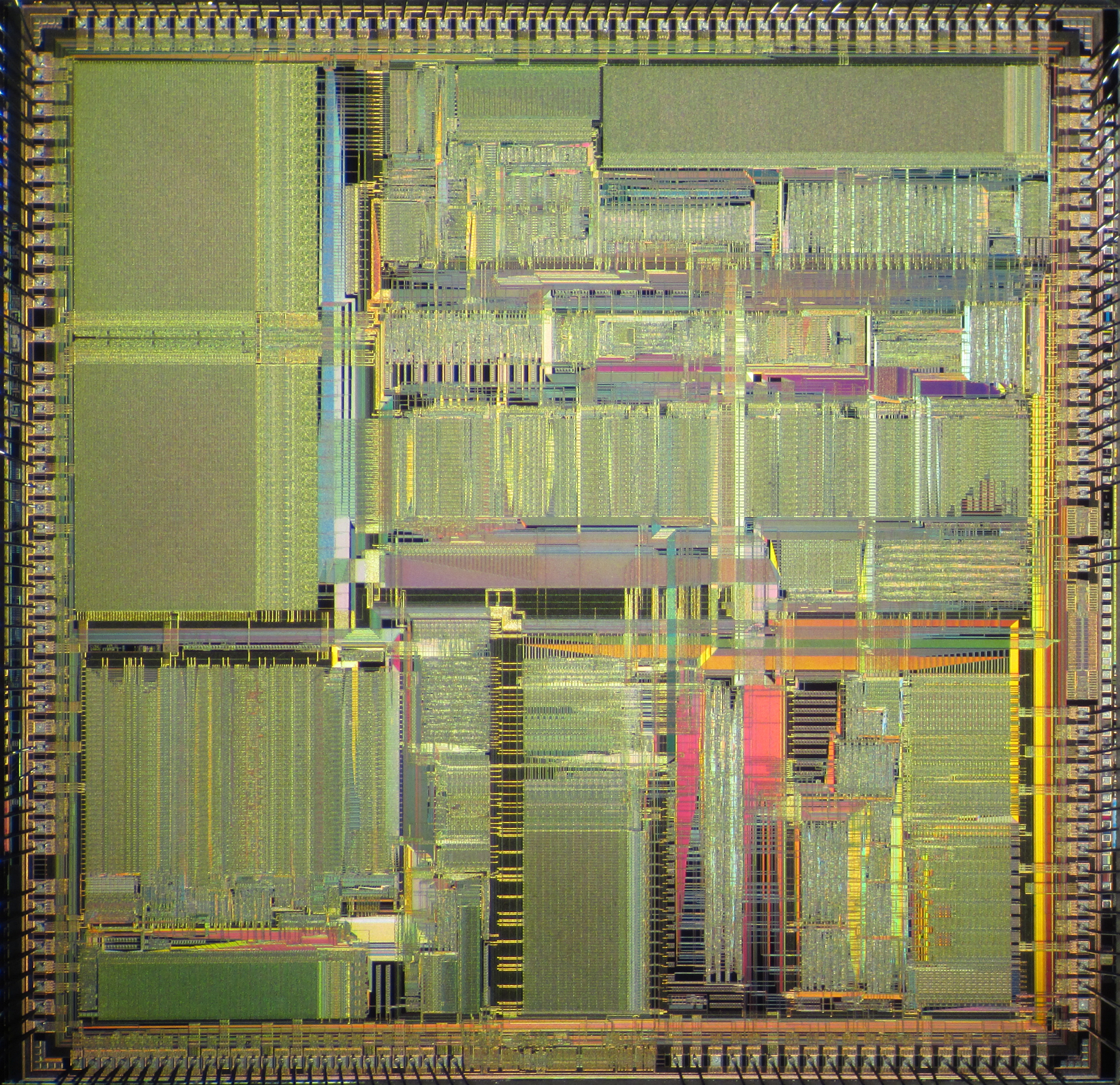 Die shot of Cyrix Cx486DX-40GP microprocessor.